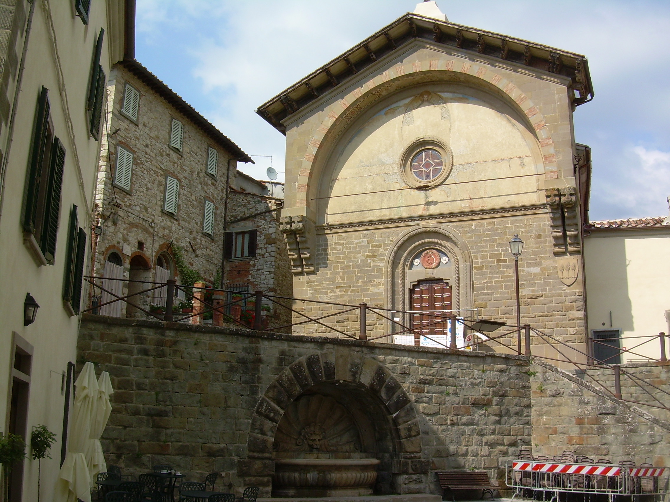 Church Propositura Di San Niccolò in Radda in Chianti